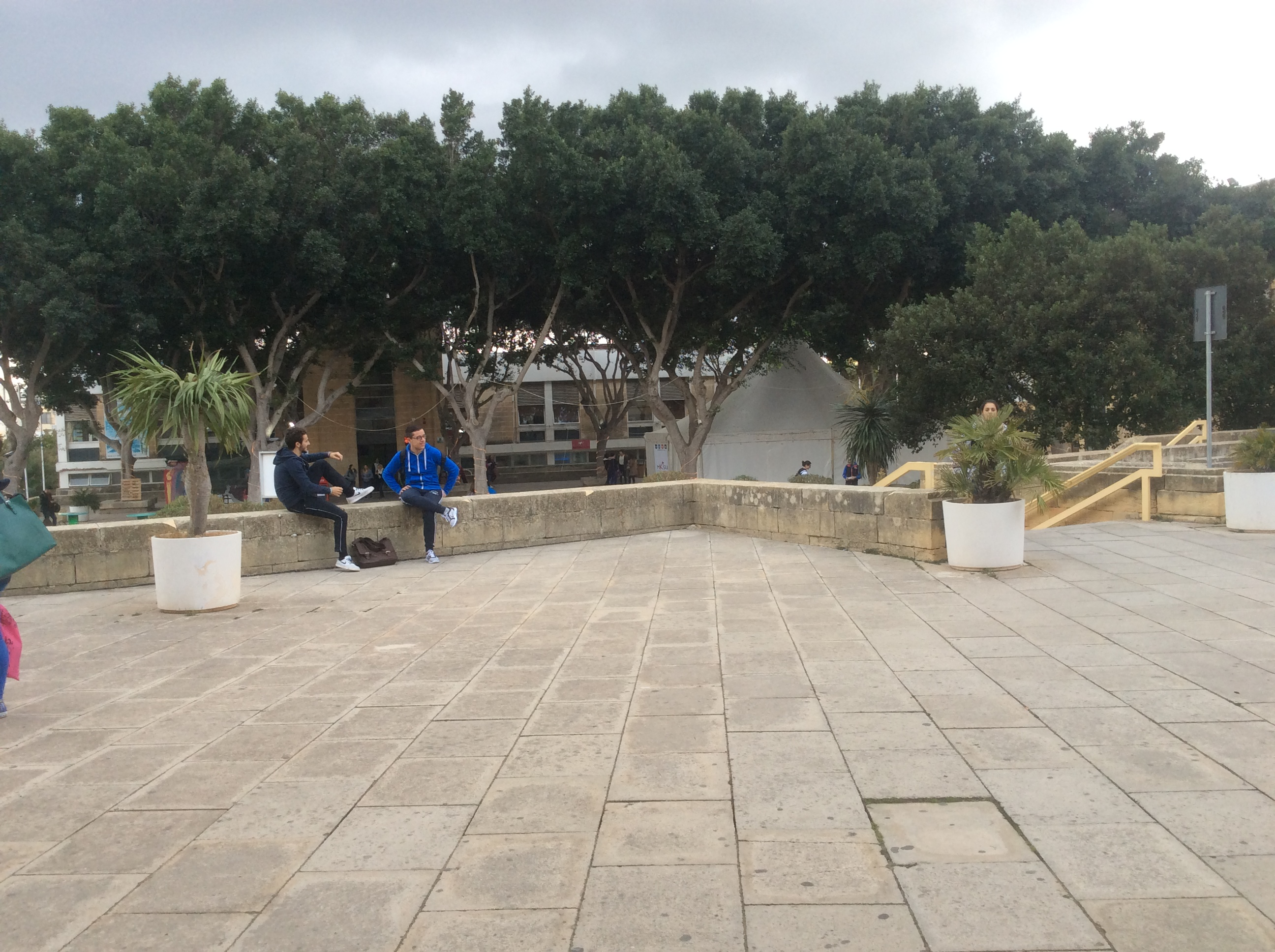 University of Malta Quad - main area